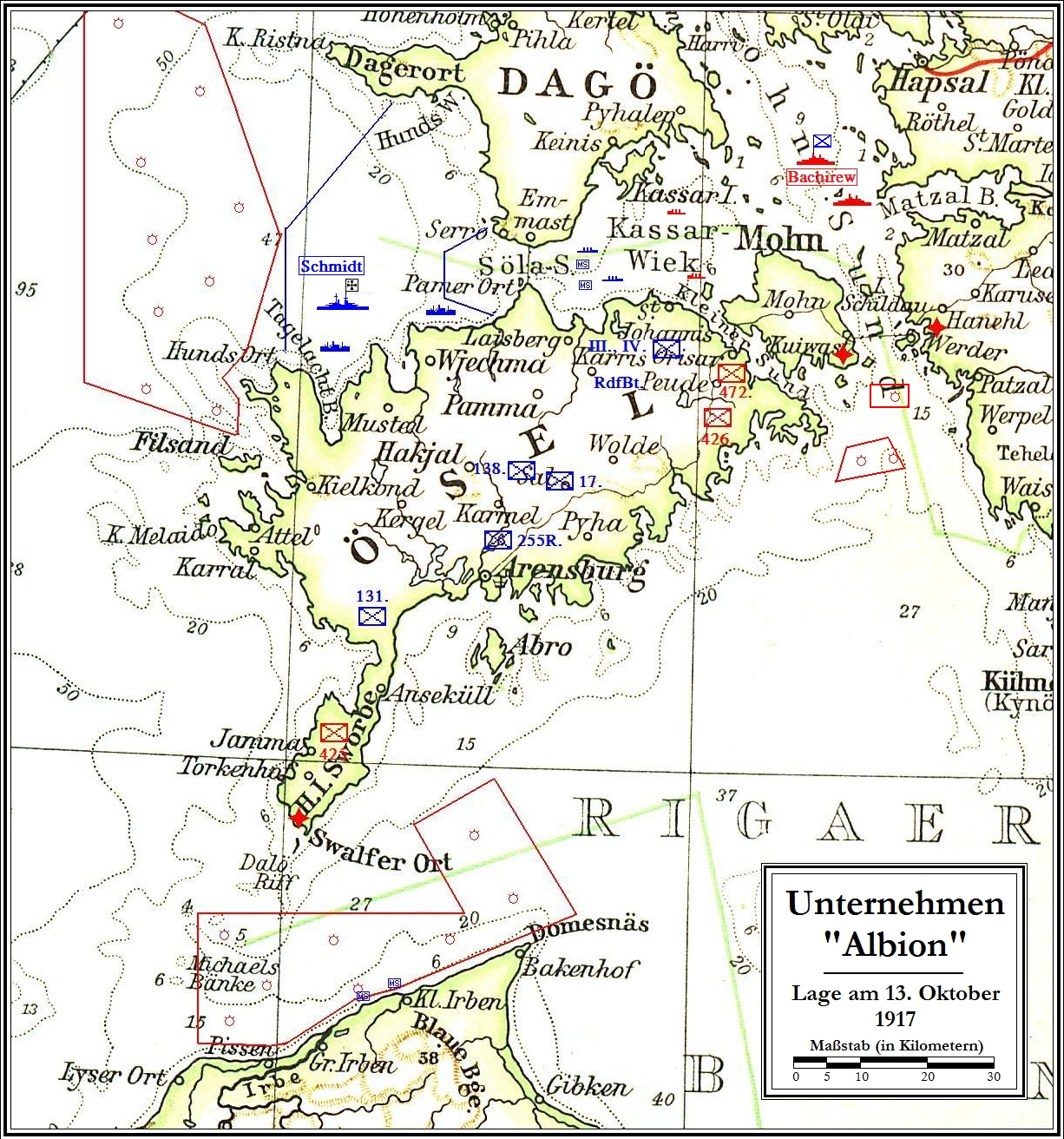 Dislocation of German and Russian units during the invasion of the Baltic Islands, October 13, 1917. Map is based on Andrees Allgemeiner Handatlas, 4. Auflage, Gotha 1899.